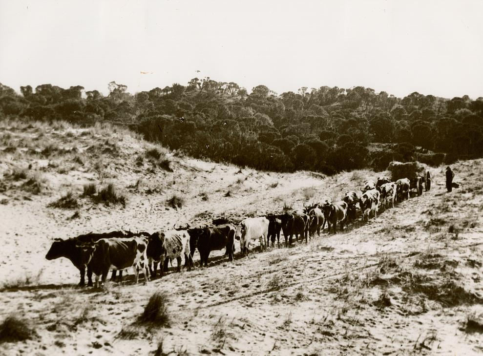 A bullock team is pulling a loaded wagon along a track in the sandy type of country through which the Promontory Road was constructed. (See Wilsons Promontory)